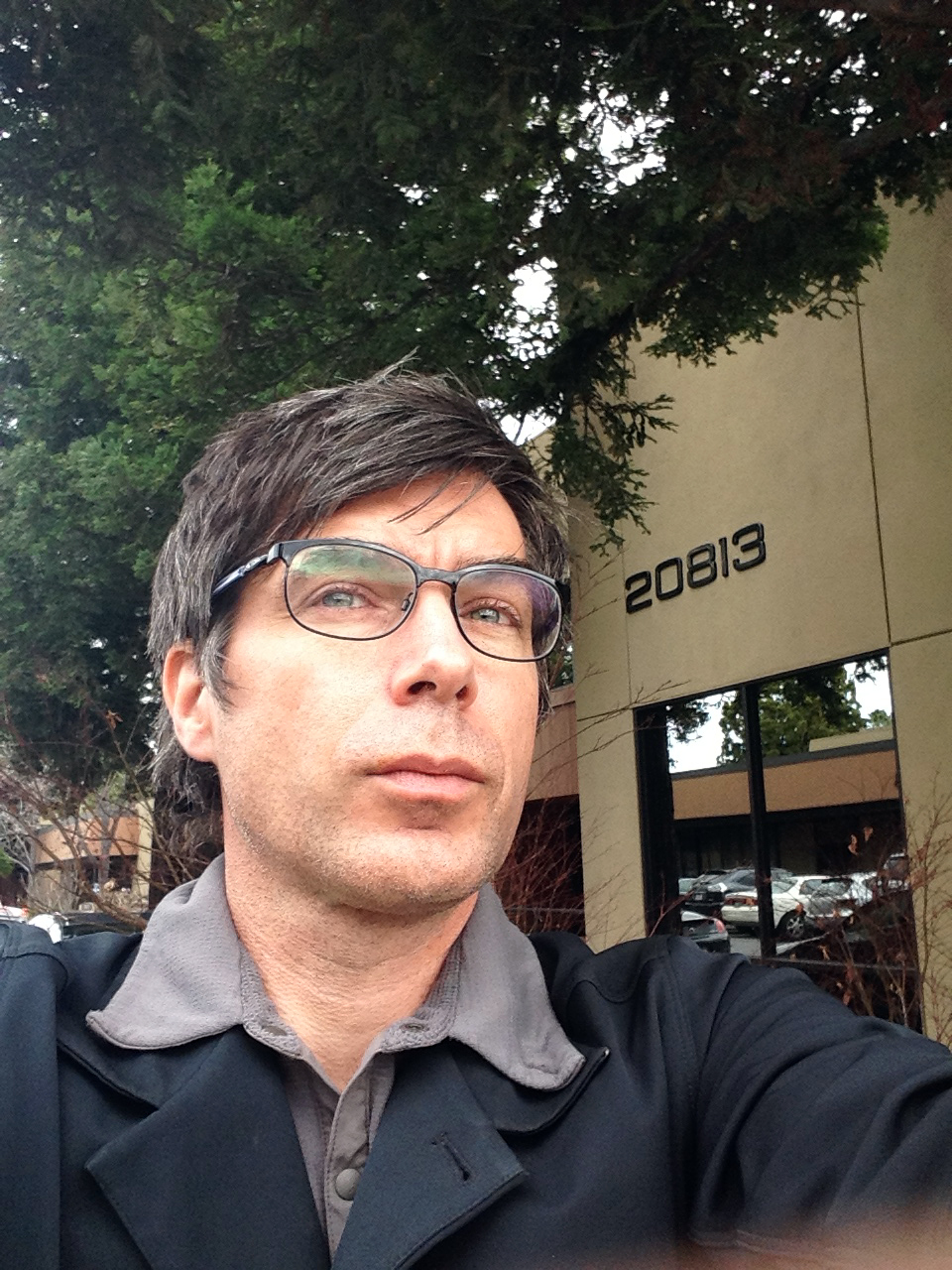 Comics creator Patrick Farley in Cupertino, California, February 2013.